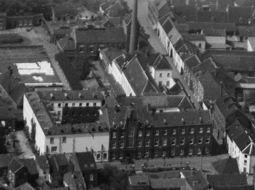 Aerial photograph of Maastricht, The Netherlands, 1937